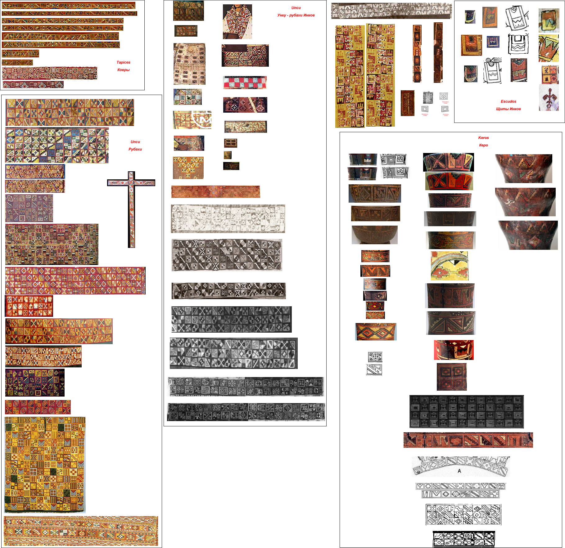 Tokapu of the Inkas